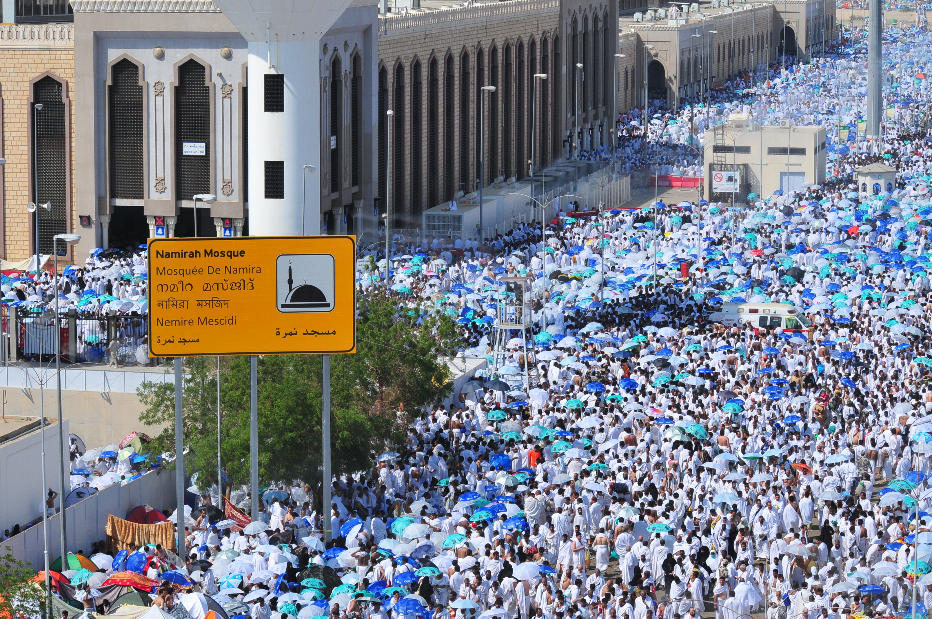 Pilgrims at the Namirah Mosque